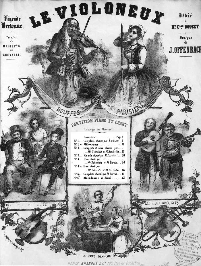 Jacques Offenbach: Le Violoneux. Cover page of vocal score, published 1855